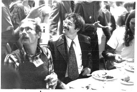 Photo-of-Shawn-Steel-and-Dana-Rohbrabacher at FOF